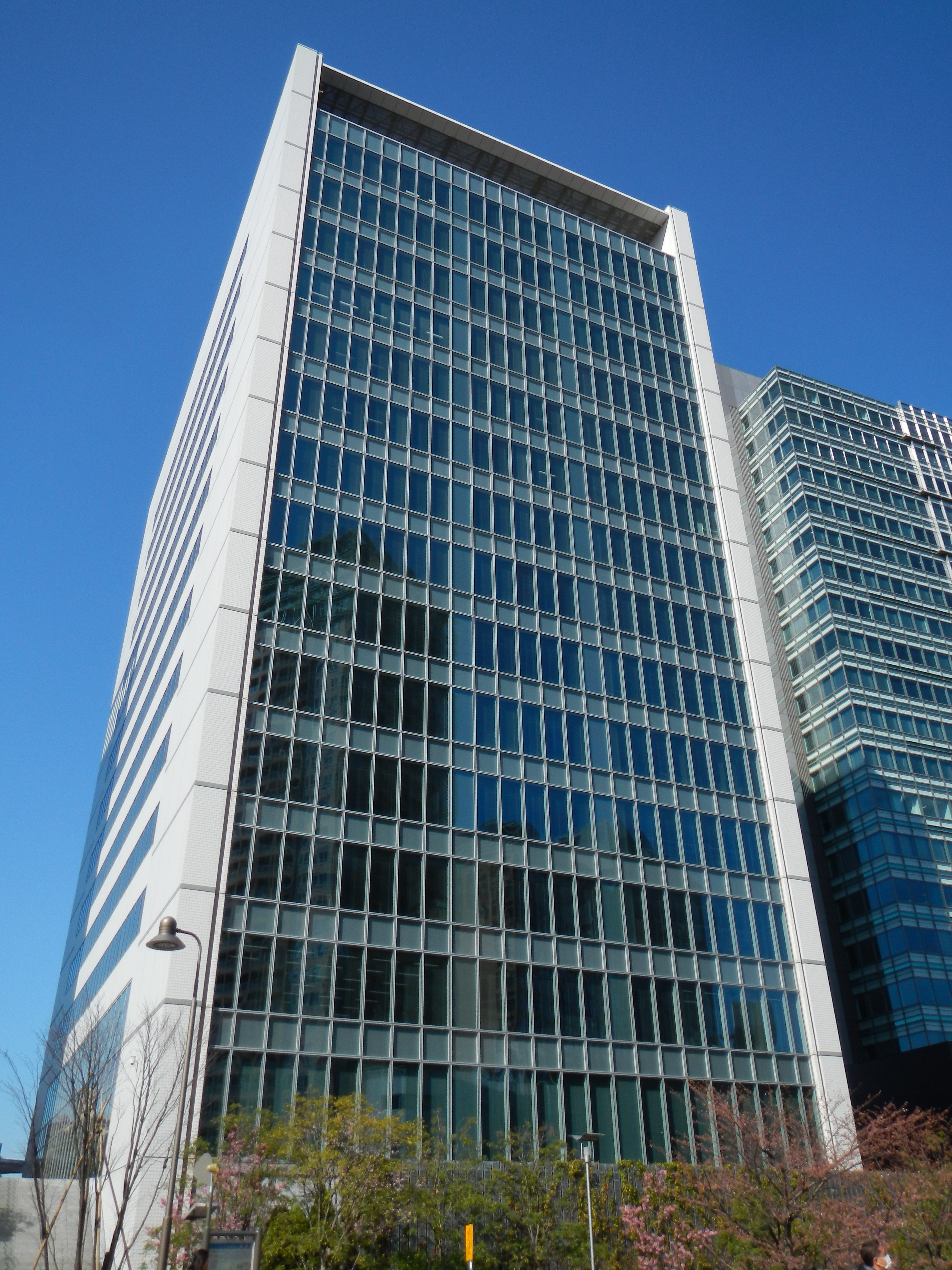 Headquarter Building of Hitachi Systems, Ltd. at Shinagawa, Tokyo.